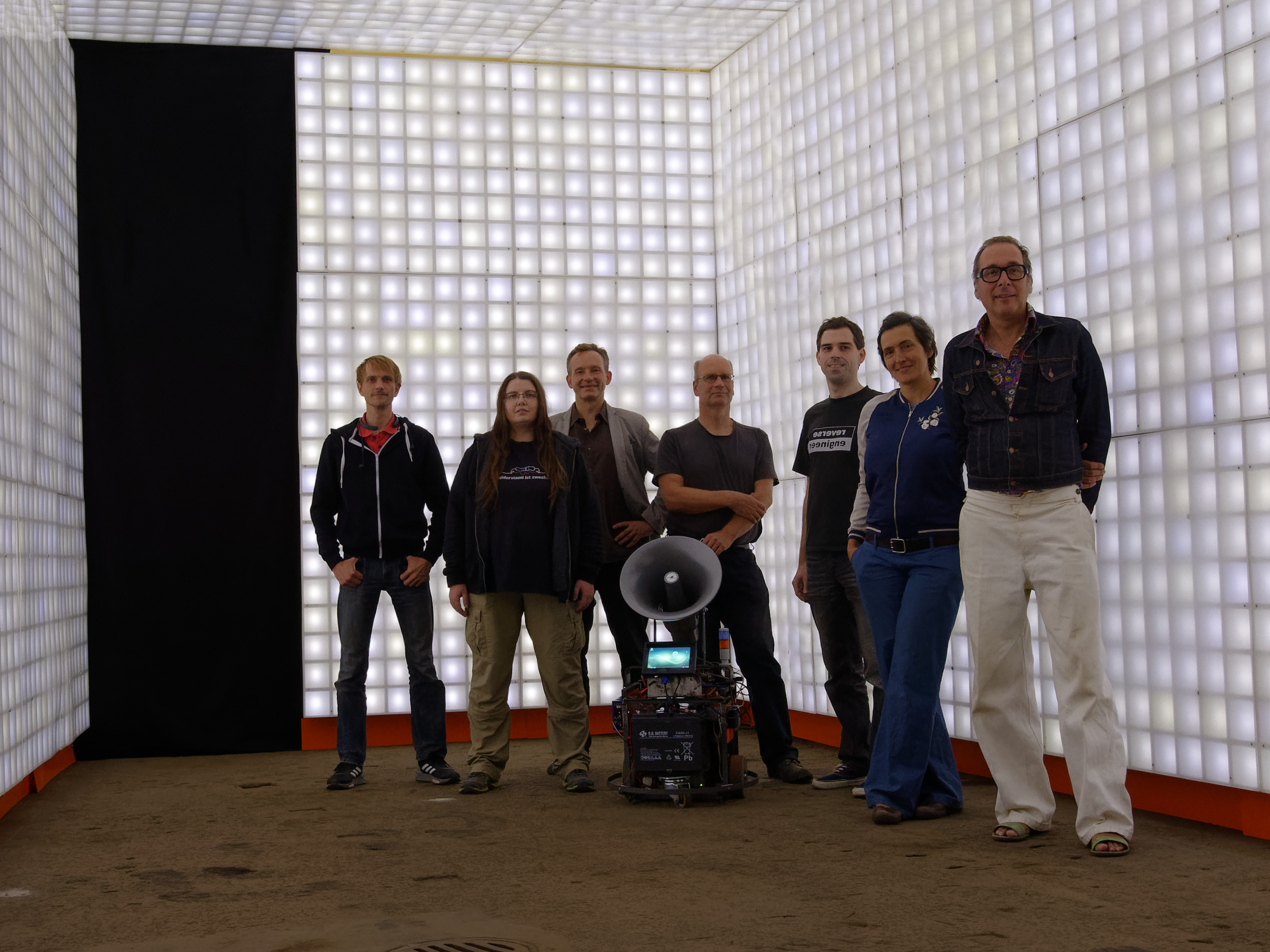 BBM, Observers of Operators of Machines (group photo 2018). From right: Olaf Arndt, Janneke Schönenbach, Stefan Schürmans, Lars Vaupel, Lillevan, Julia Eisenberg, Stephan Kambor-Wiesenberg